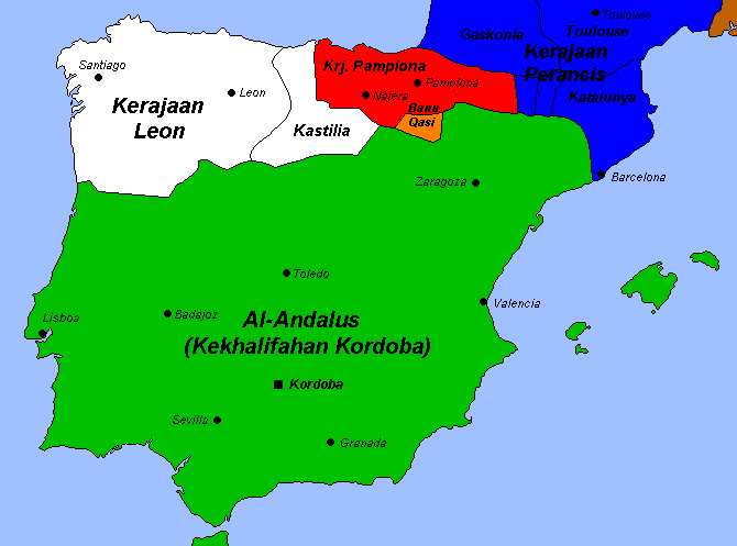 Author:Sugaar *Legend:Caliphate of Cordoba c. en:1000 at the apogee of Al-Mansur dictatorship. **Green: Caliphate of Cordoba (it also exerted domain/overlordship over most of North Africa, not shown) **Blue: Kingdom of France (divided in several fiefs) **White: Kingdom of Leon (County of Castile was quasi-independent) **Red: Kingdom of Pamplona **Orange: Banu Qasi independent emirate (ally of Pamplona)